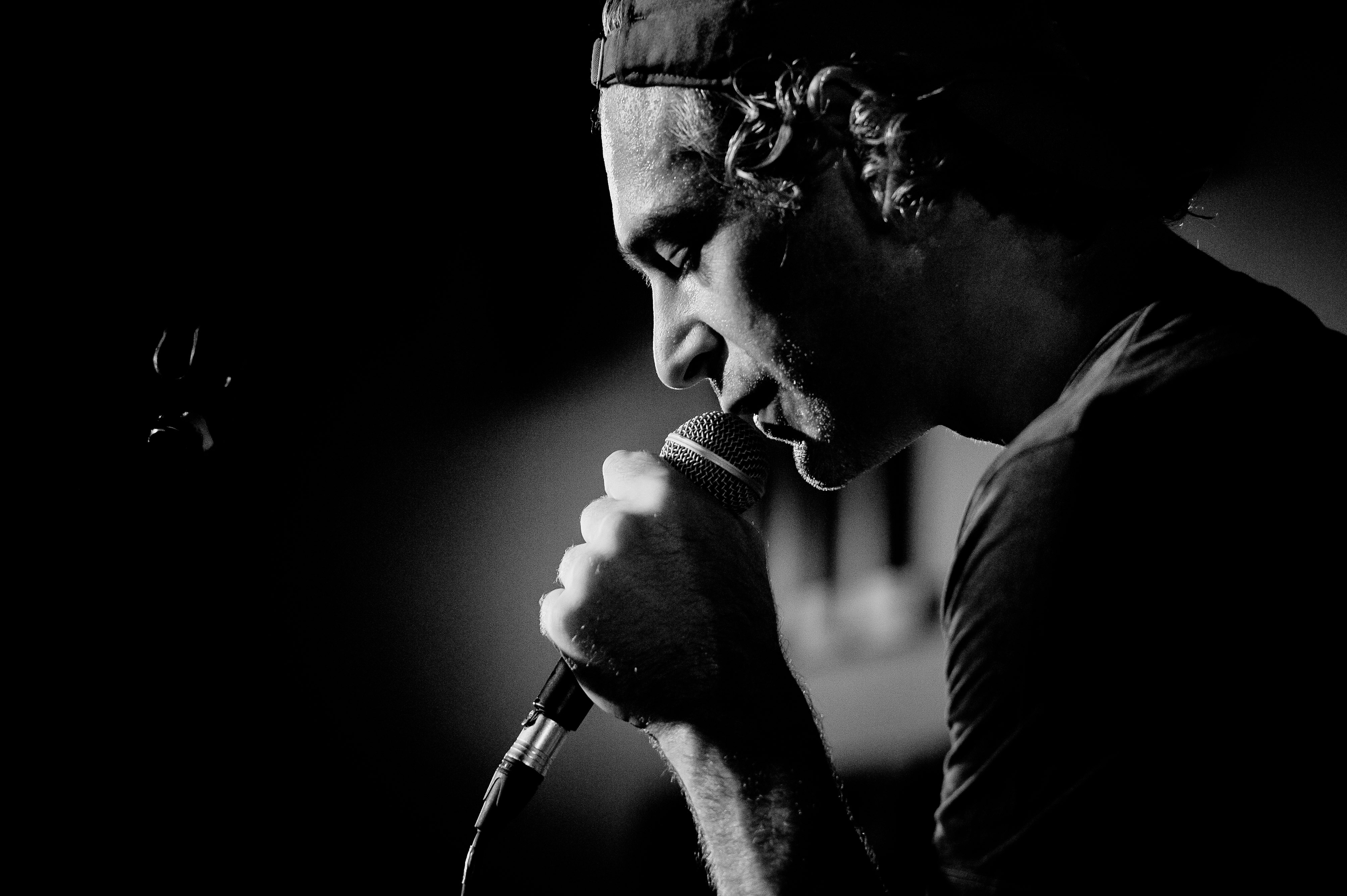 Matisyahu (vocals) Foto: Stephan Röhl